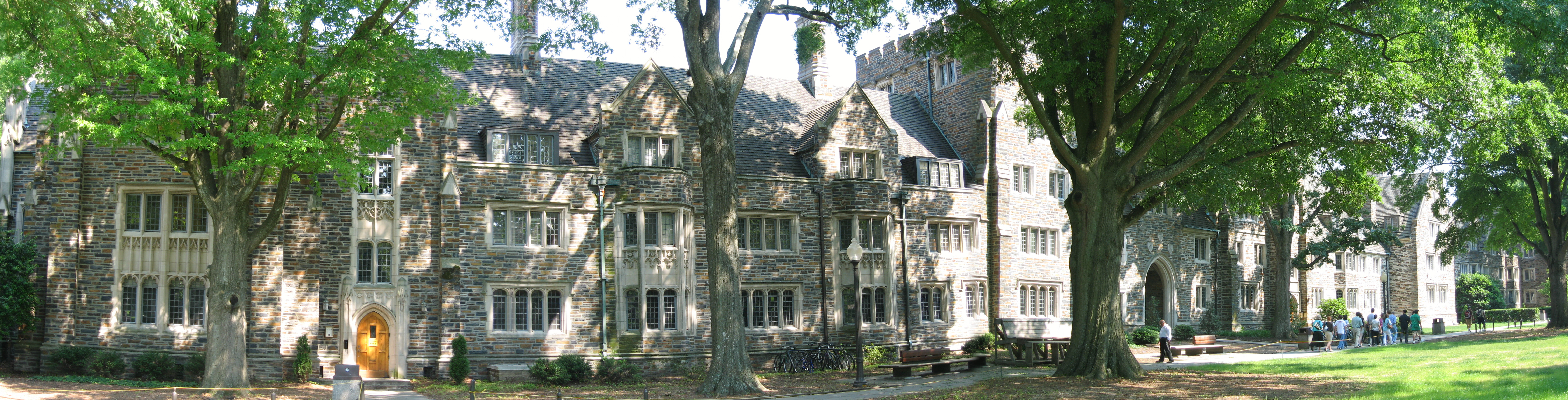 The exterior of Few Quadrangle on Duke's West Campus. The archway leading to the center of the quad can be seen on the far right. The chapel would be behind and to the left of the camera. Image created using Photostitch on three images each captured w/ a 7.1 megapixel camera